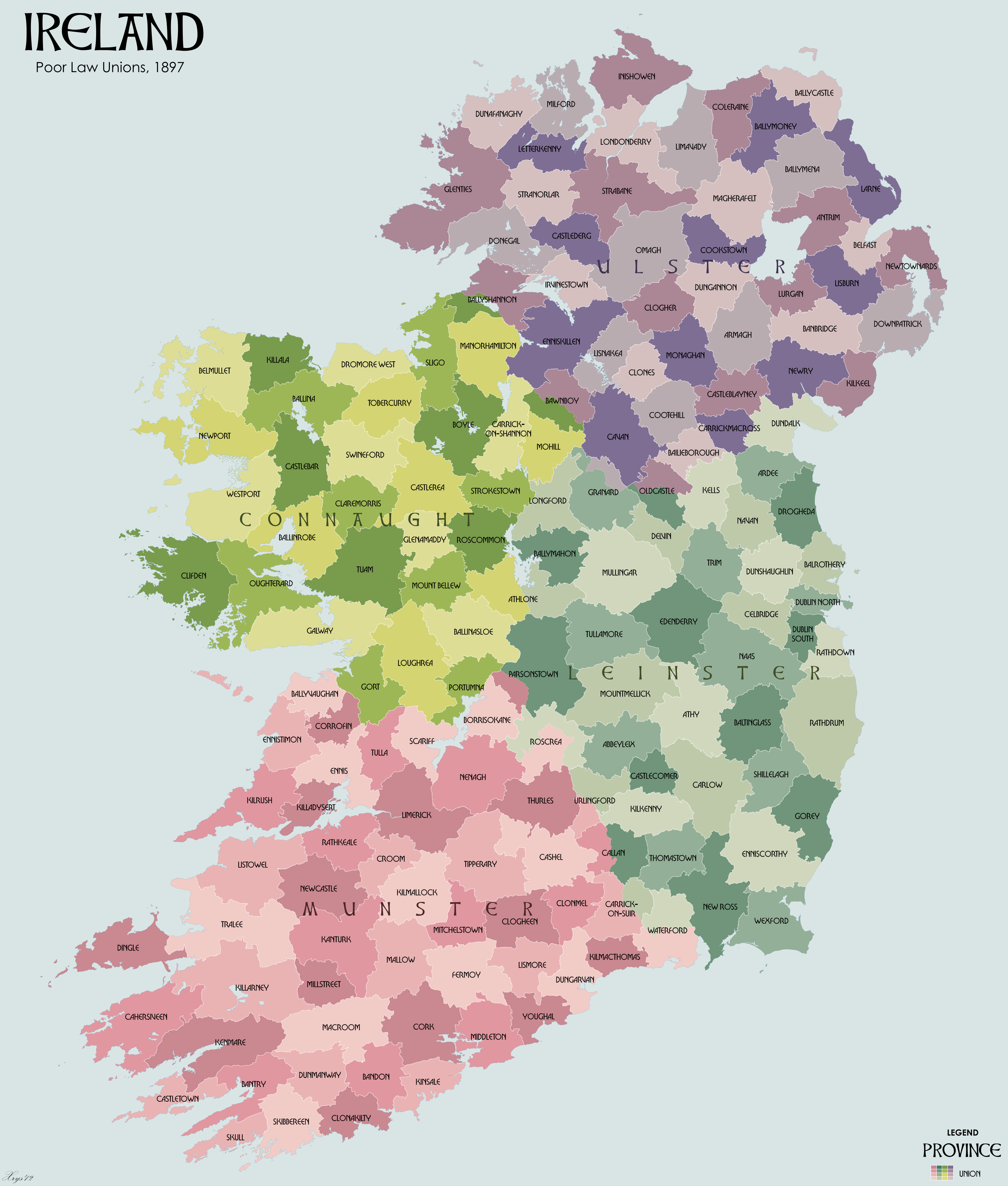 Map of the poor law unions in Ireland prior to the Local Government (Ireland) Act 1898